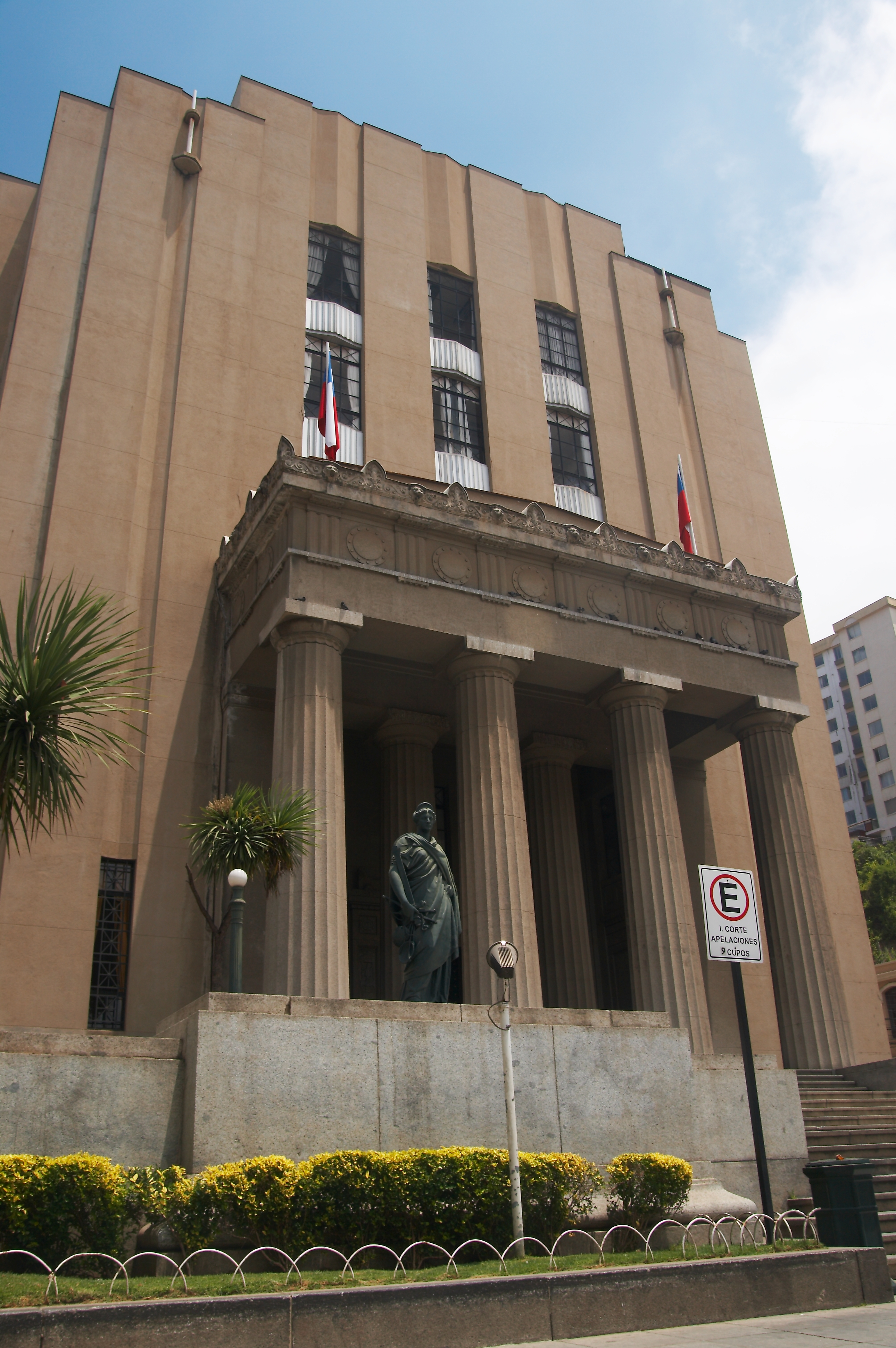 Valparaíso, Chile.